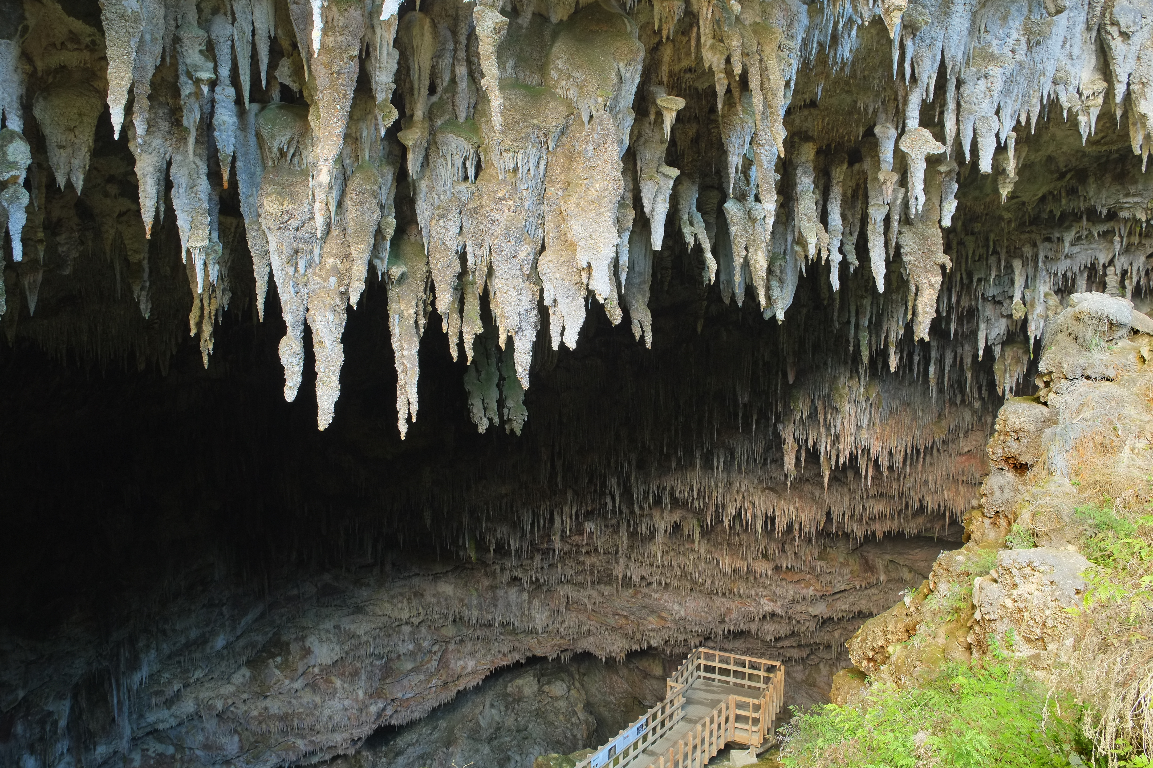 Rawhiti Cave, looking down into cave towards viewing platform